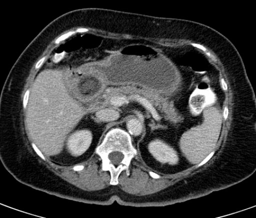 This image is part of a series which can be scrolled interactively with the mousewheel or mouse dragging. This is done by using Template:Imagestack. The series is found in the category Bouveret's syndrome - CT - MRI - case 001. Bouveret-Syndrom in der Computertomographie: Man erkennt den großen Gallenstein, der aus der Gallenblase in das Duodenum perforiert ist und jetzt den Magenausgang verlegt. Der Magen ist stark gefüllt und eine Hiatushernie wölbt sich dadurch noch mehr nach oben.